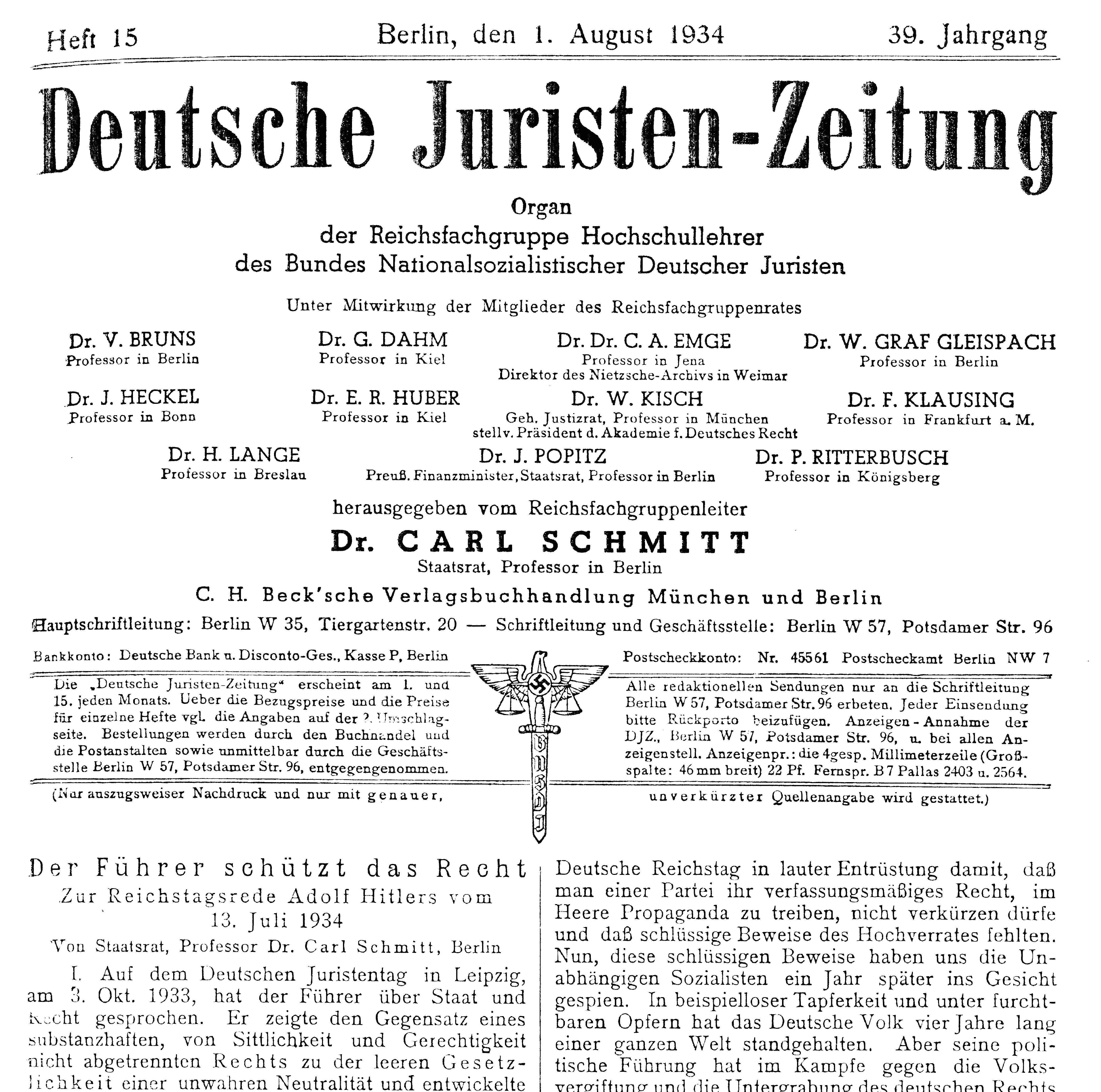 Header of: Carl Schmitt, „Der Führer schützt das Recht“ Carl Schmitt, Der Führer schützt das Recht, in: Deutsche Juristen-Zeitung 1934, 945.